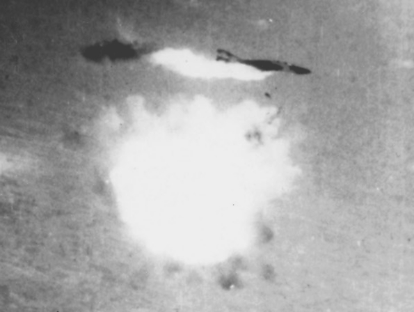 A U.S. Air Force McDonnell RF-4C Phantom II aircraft (s/n 65-0882) from the 11th Tactical Reconnaissance Squadron being shot down by an SA-2 on 12 August 1967 near Hanoi, North Vietnam. Capts. Edwin Atterberry and Thomas Parrott were captured after ejecting. Atterberry died in the hands of the North Vietnamese after an escape attempt and Parrott was released at the end of the war.